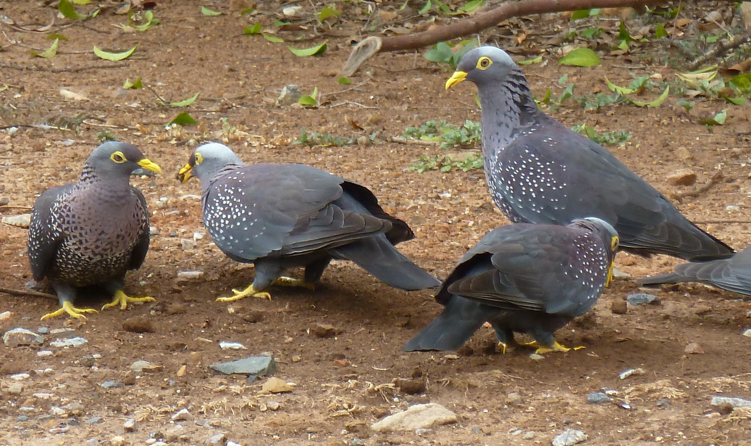 African olive pigeons at a clay lick in Lynnwood Glen, in suburban Pretoria, South Africa. Up to 10 birds congregate at a time, with both sexes and various age groups present. The habit may well be related to consumption of poisonous Melia azedarach or Solanum seeds.